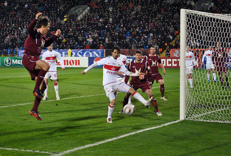 FC Rubin Kazan in attack